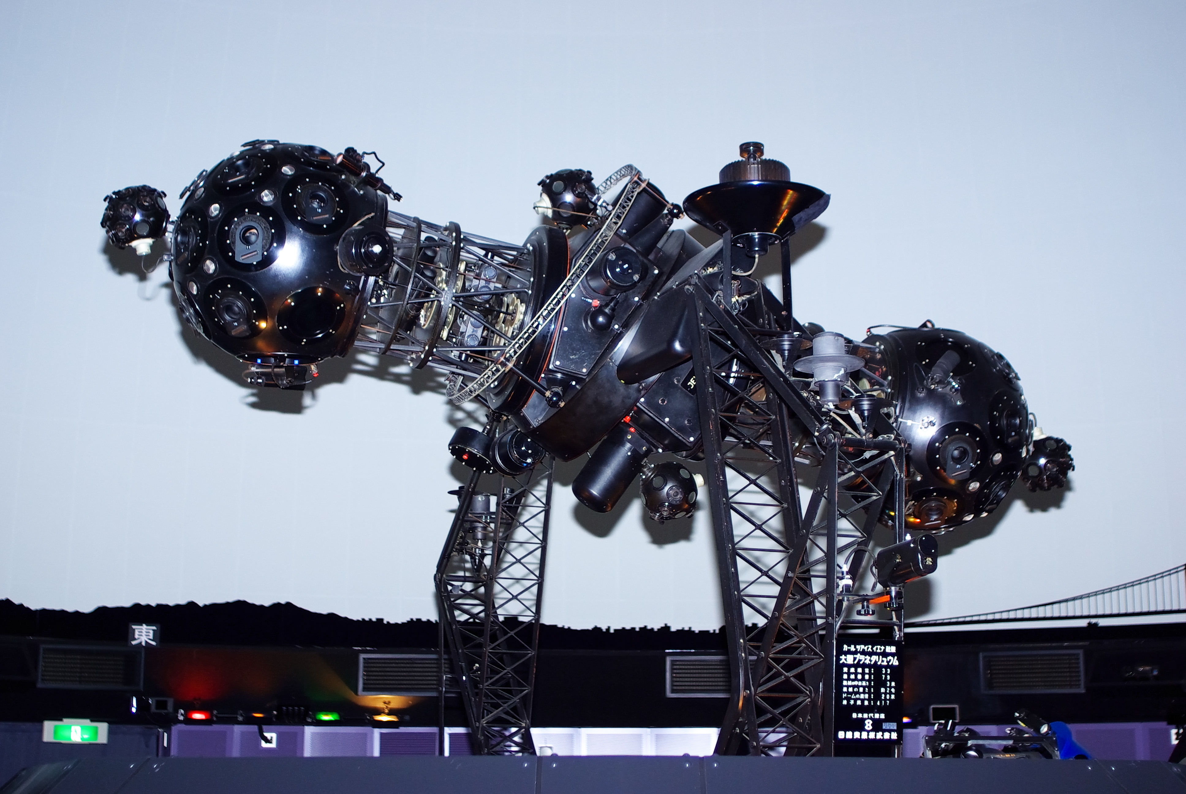 Akashi, Hyogo Prefecture, Akashi Astronomical Science Museum